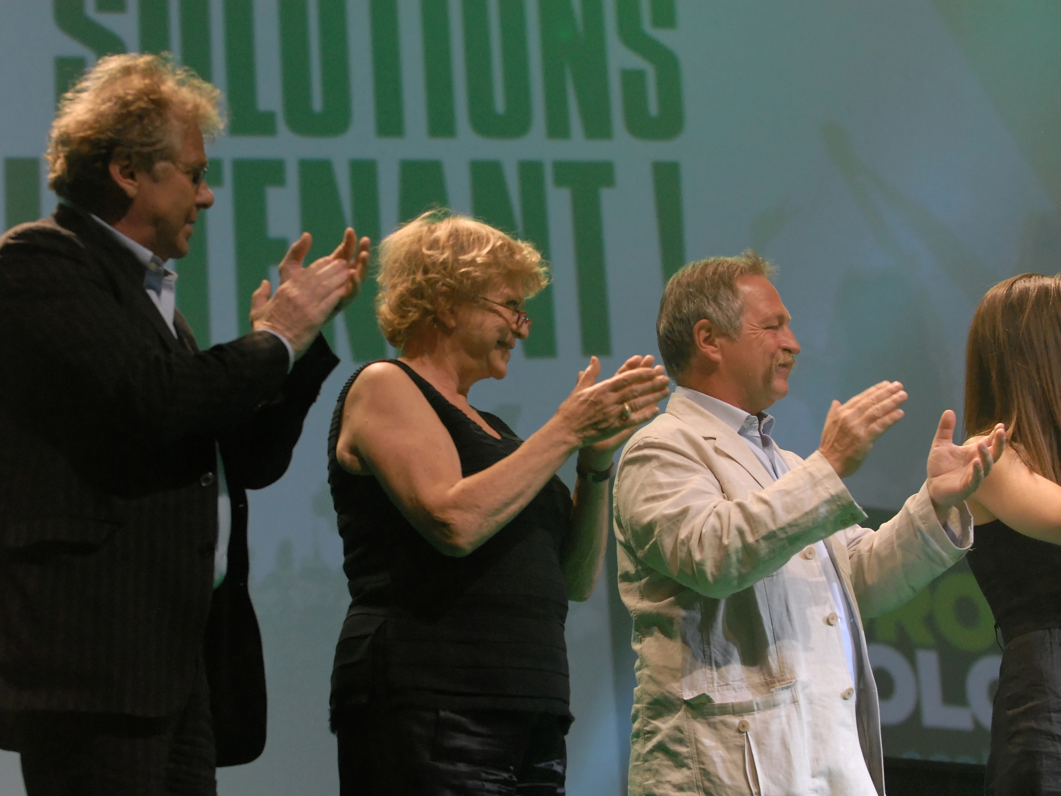 From left to right, Daniel Cohn-Bendit, Eva Joly and José Bové at the closing rally of Europe Écologie at the Zenith in Paris, on June, 3 2009. Campaign for the 2009 European elections in France.